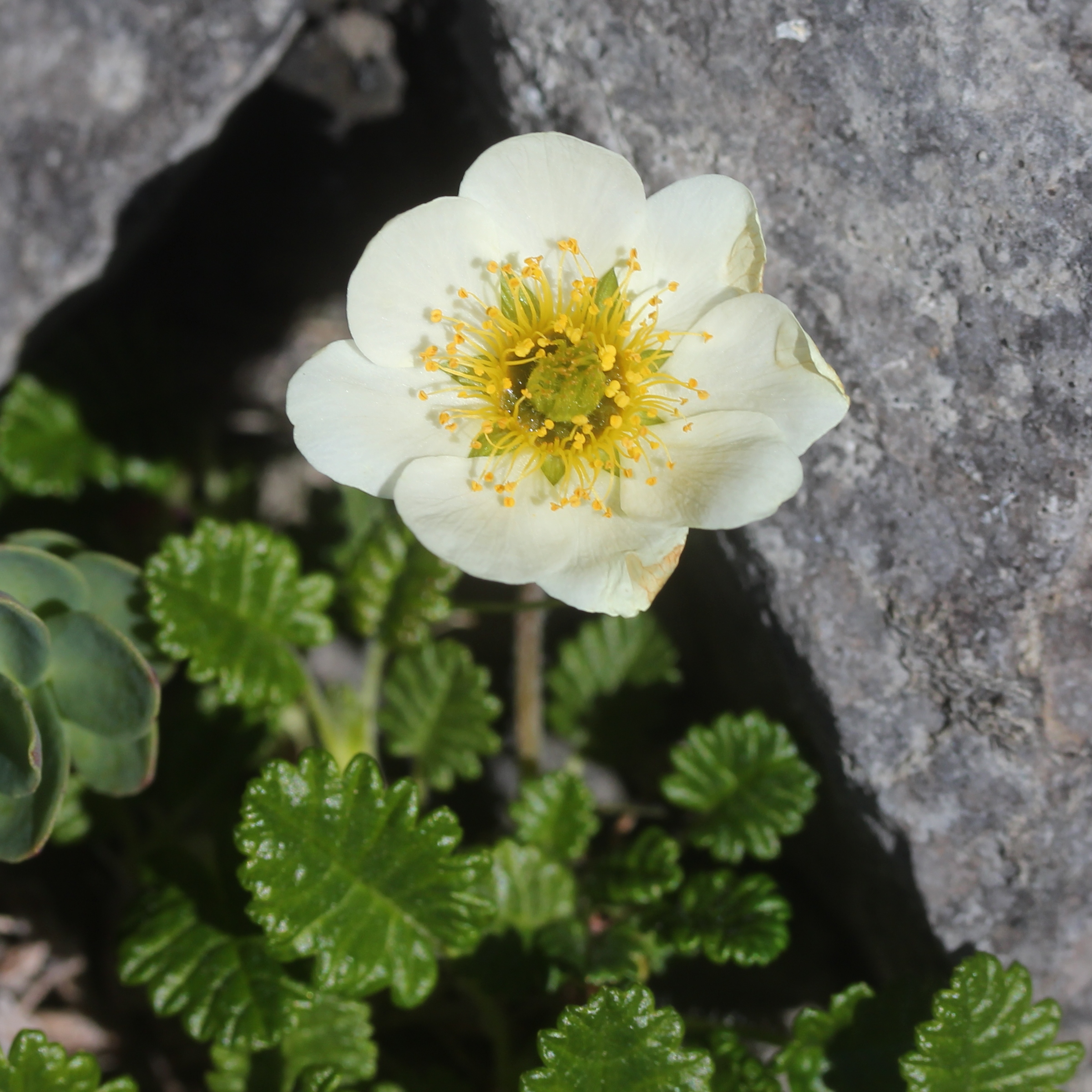 Dryas octopetala var. asiatica in Mount Shiroumayari, Hakuba, Nagano Prefecture, Japan.